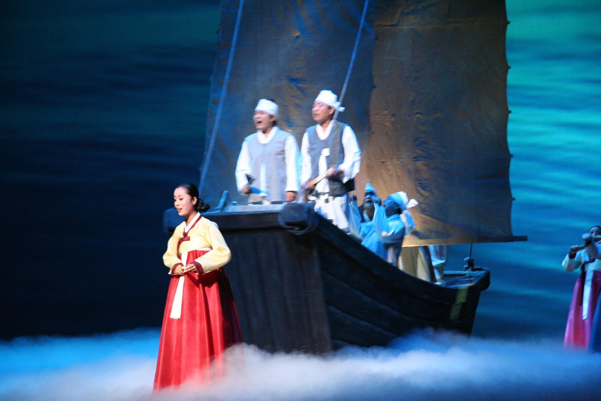 The Changguek play titled "Leaving Ship" performed by the National Changguk Compoany Of Korea for the World Library and Information Congress took a place on August 22 2006 at Sejong Center, South Korea More information in Korea